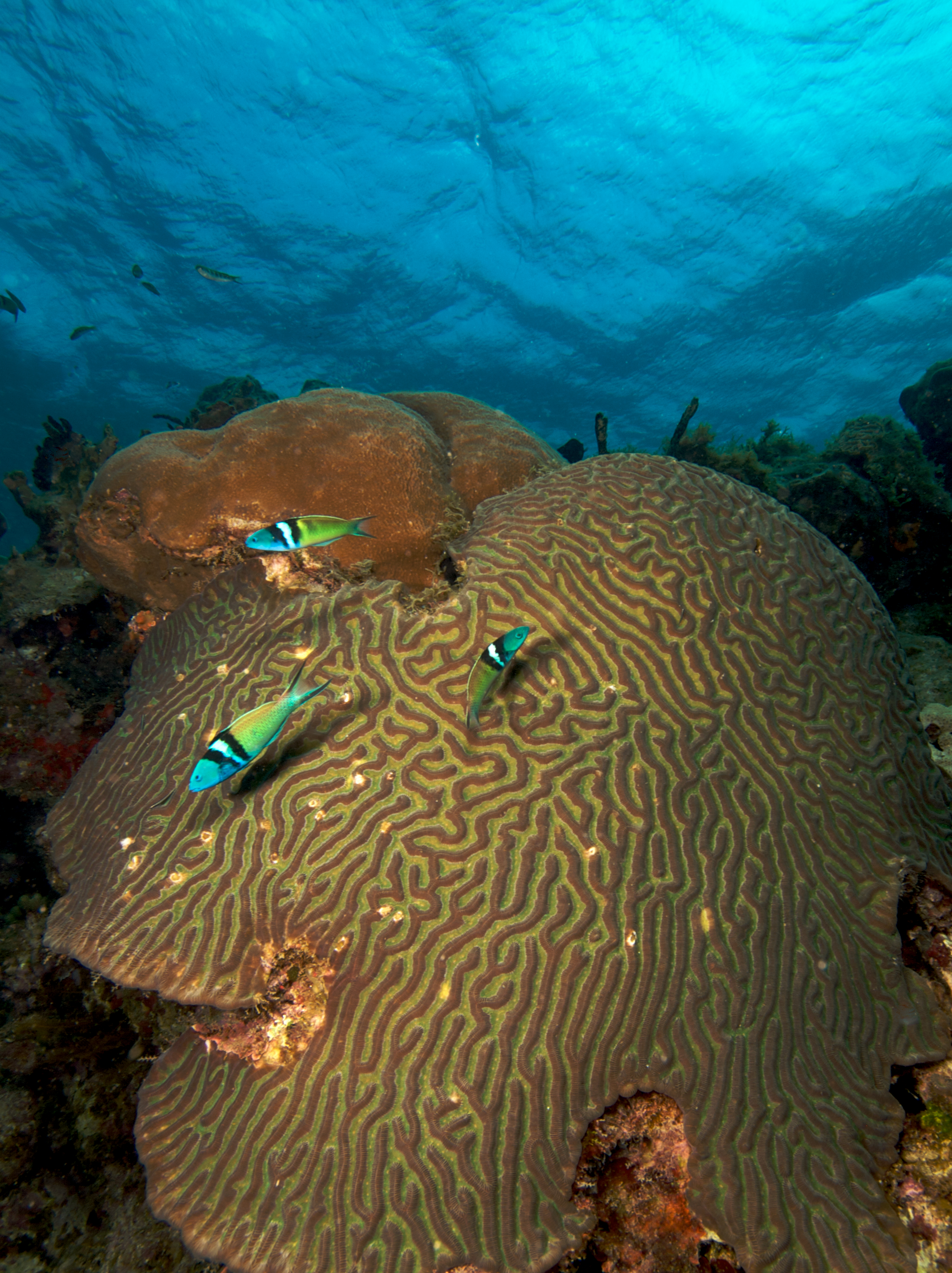 Three Thalassoma bifasciatum (blue-headed wrasse) swimming over a large Platygyra sp. (maze brain coral). See image at right for individual in juvenile/female stage.